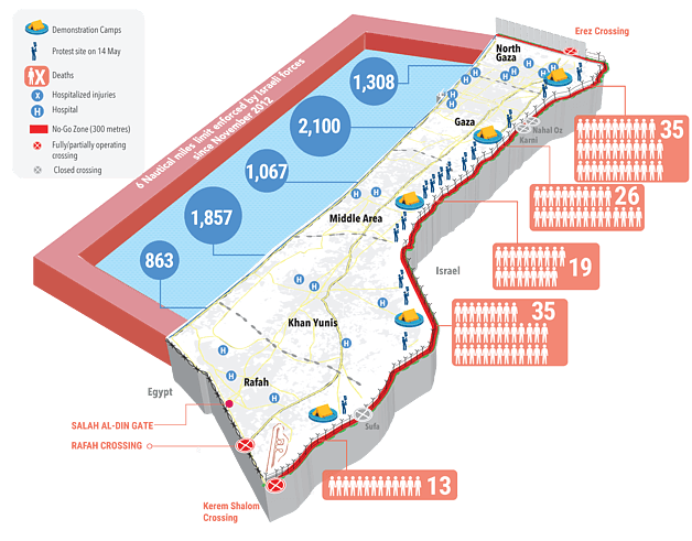 OCHAoPT map of 2018 Gaza border protests, as at 31 may 2018